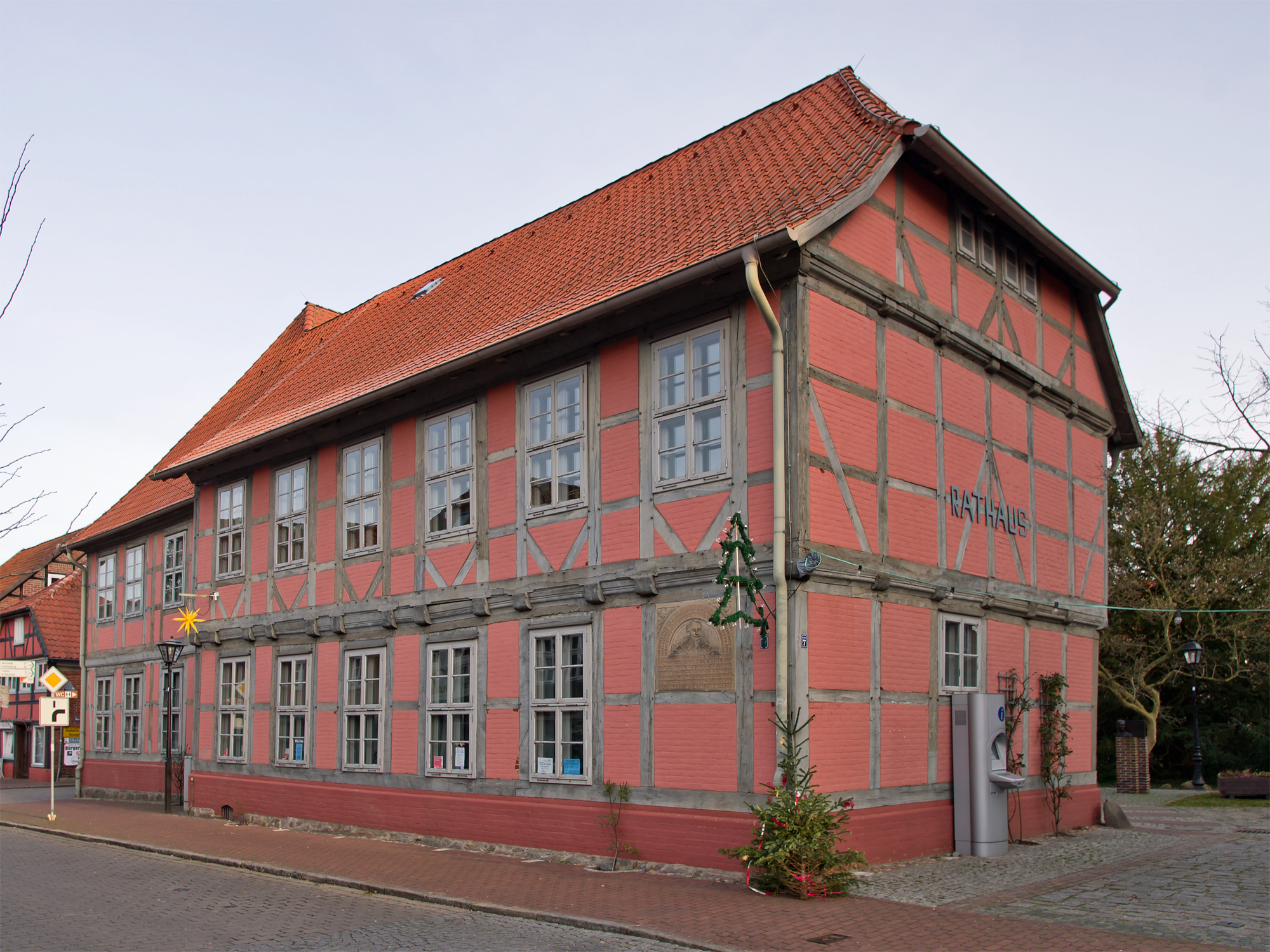 Town hall of Hitzacker (Elbe) (district Lüchow-Dannenberg, northern Germany).